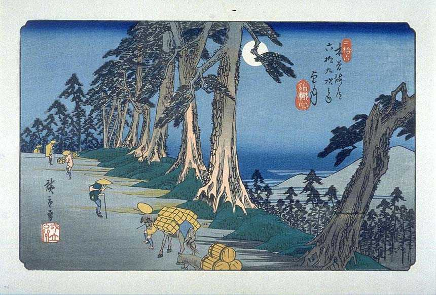 Mochizuki on the Kisokaido, ukiyo-e prints by Hiroshige